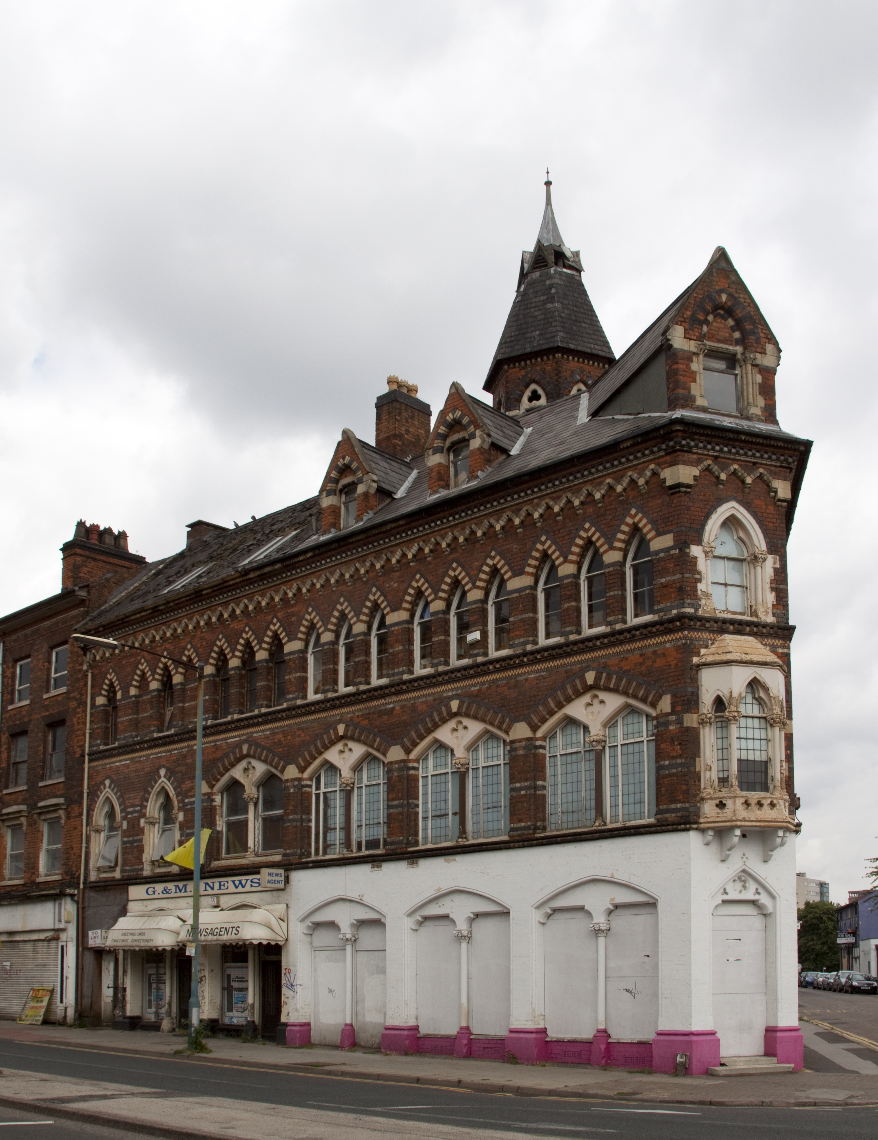 Former Gothic Public House Great Hampton Street 1